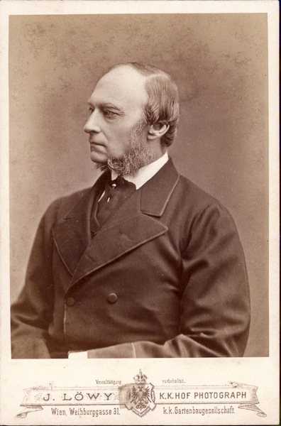 Johann Larisch-Mönnich (May 30, 1821 - June 3, 1884), the minister of finance in Austria government (1865 - 1867) and owner of coal mines in Silesia